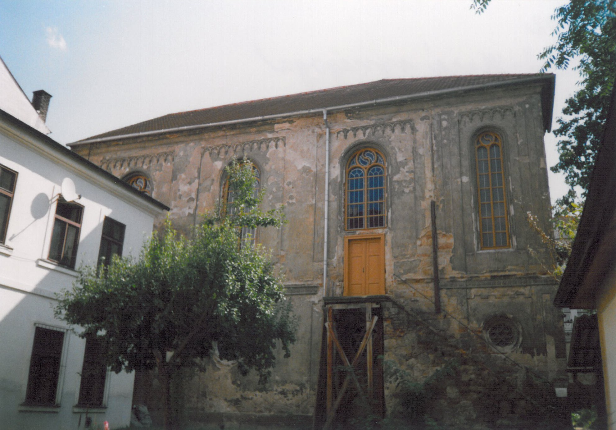 Die "Stará Synagoga" (Alte Synagoge ) in Plzeň